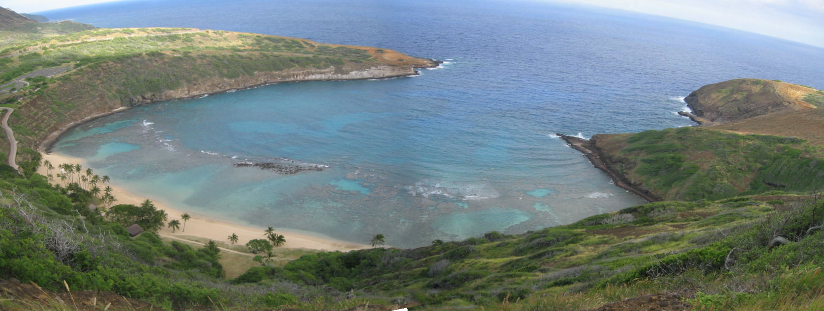 Photo taken at Oahu, Hawaii by User:Jiang on December 25, 2005.